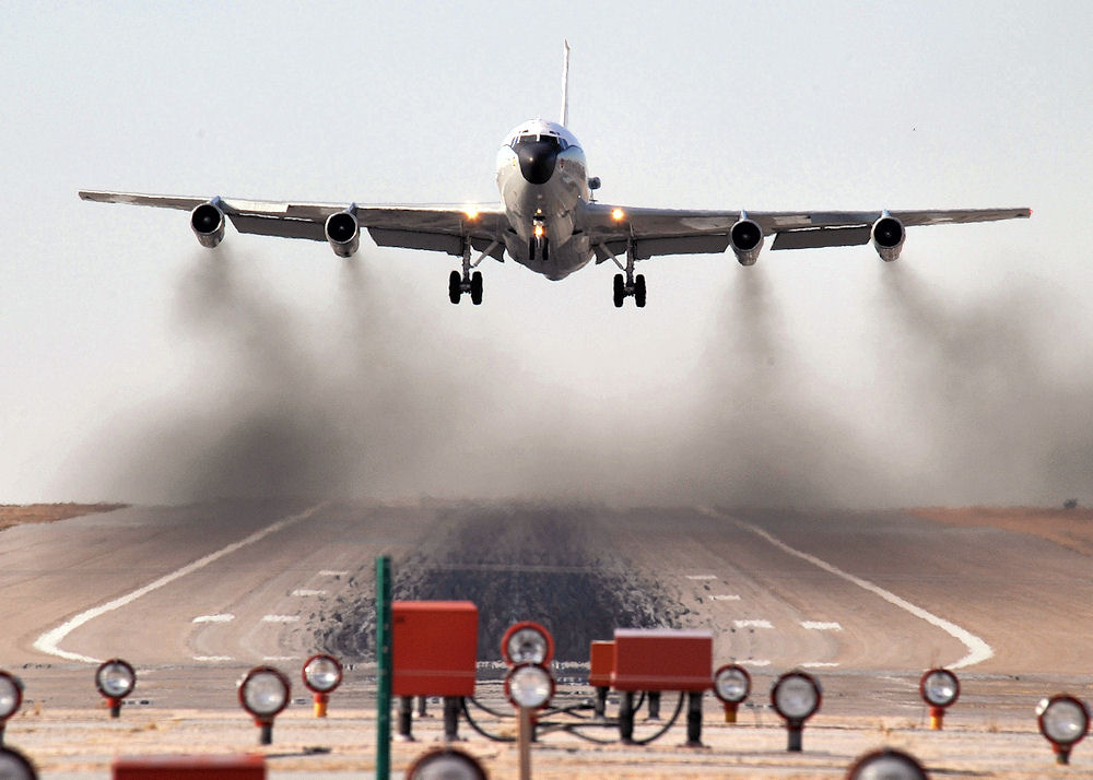 Throughout the afternoon, an WC-135W Constant Phoenix aircraft performs touch 'n go landing exercises at Offutt Air Force Base, Neb.